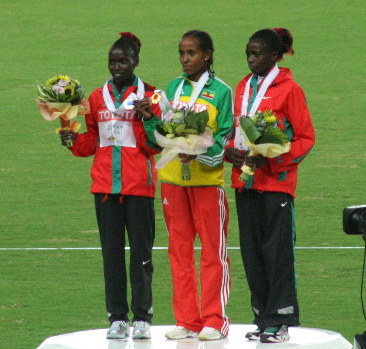 World Athletics Championships 2007 in Osaka - Victory ceremony for the women*s 5000 metres: Vivian Cheruiyot, Meseret Defar, Priscah Jepleting Cherono